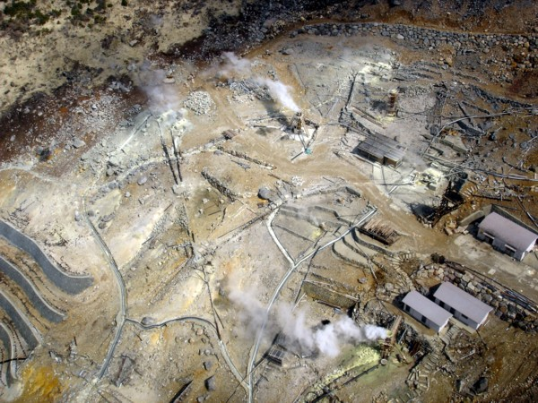 This is a picture of the Owakudani Valley or Great Boiling Valley in Hakone Japan.